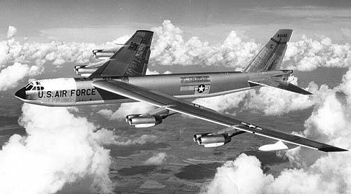 B-52G. In flight (USAF) copy